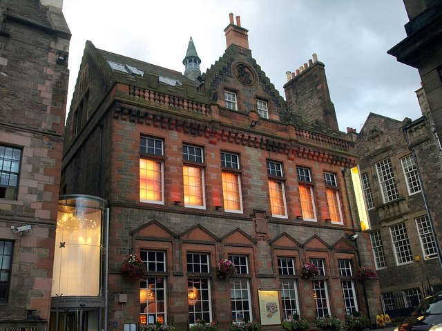 Scotch Whisky Heritage Centre, Edinburgh Home of the Scotch Whisky Experience, which perhaps explains the mysteriously flickering pink and orange lights on the first floor. On Castle Hill, the upper section of the Royal Mile.